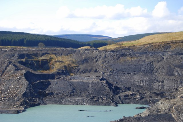 Opencast Workings, New Cumnock Opencast Coal workings at the head of the River Nith in the parish of New Cumnock. Photo taken from Craigman Farm. The round hillock in the distance is the castle hill at Waterhead.